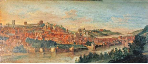 View of Drogheda from 1718 by Willem Van der Hagen.